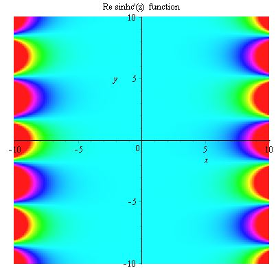 Sinhc'(z) Re plot